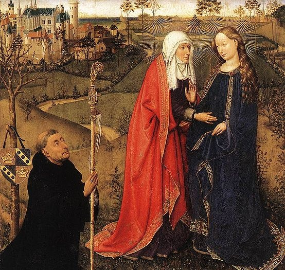 Visitation, from Altarpiece of the Virgin (St Vaast Altarpiece) by Jacques Daret c. 1434 - 1435. Staatliche Museen, Berlin.